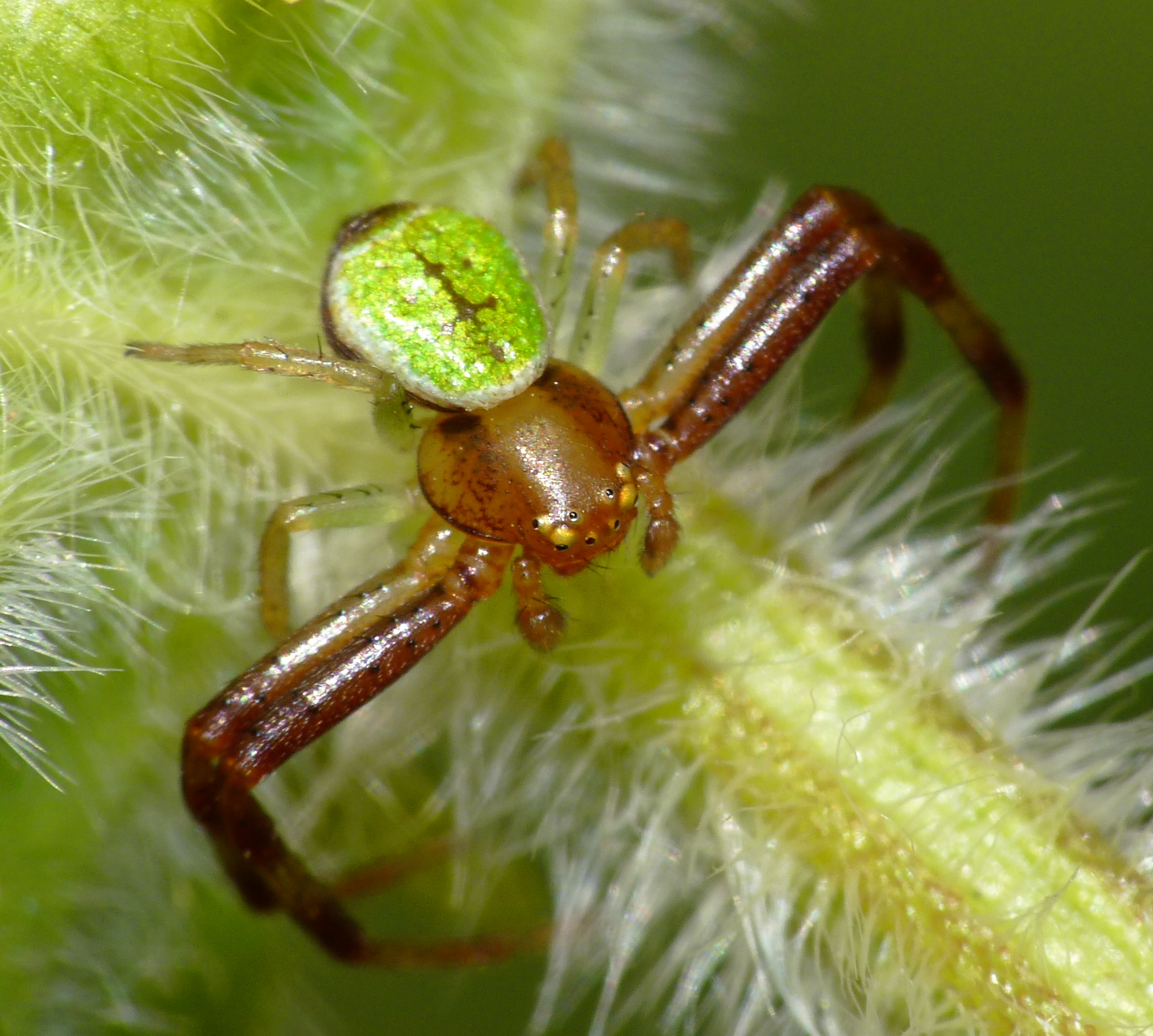 Ebrechtella tricuspidata, male, near Livorno, Tuscany, Italy